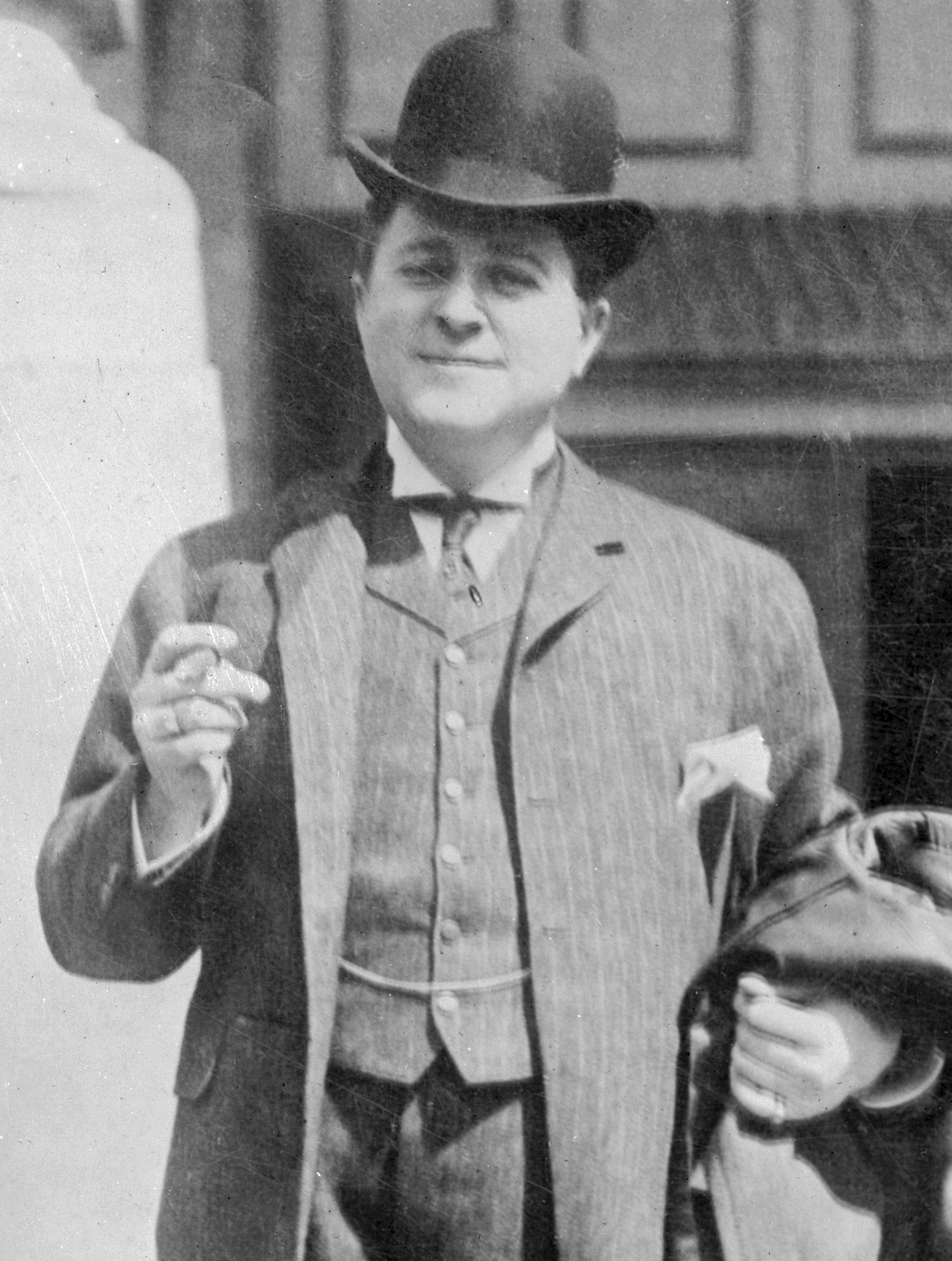 Bain News Service,, publisher. C. G. Gates [no date recorded on caption card] 1 negative : glass ; 5 x 7 in. or smaller. Notes: Title from unverified data provided by the Bain News Service on the negatives or caption cards. Forms part of: George Grantham Bain Collection (Library of Congress). Format: Glass negatives. Repository: Library of Congress, Prints and Photographs Division, Washington, D.C. 20540 USA, General information about the Bain Collection is available at Persistent URL: Call Number: LC-B2- 2758-7